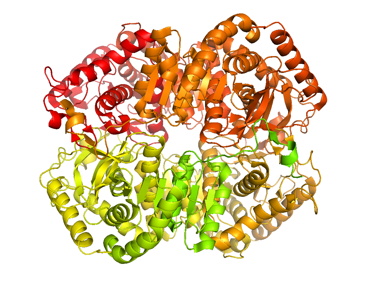 Crystal structure of B-lactate dehydrogenase